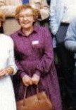 This is my photograph of delegates to the Aquatic Ape Conference held in Valkenburg, Netherlands in August 1987.